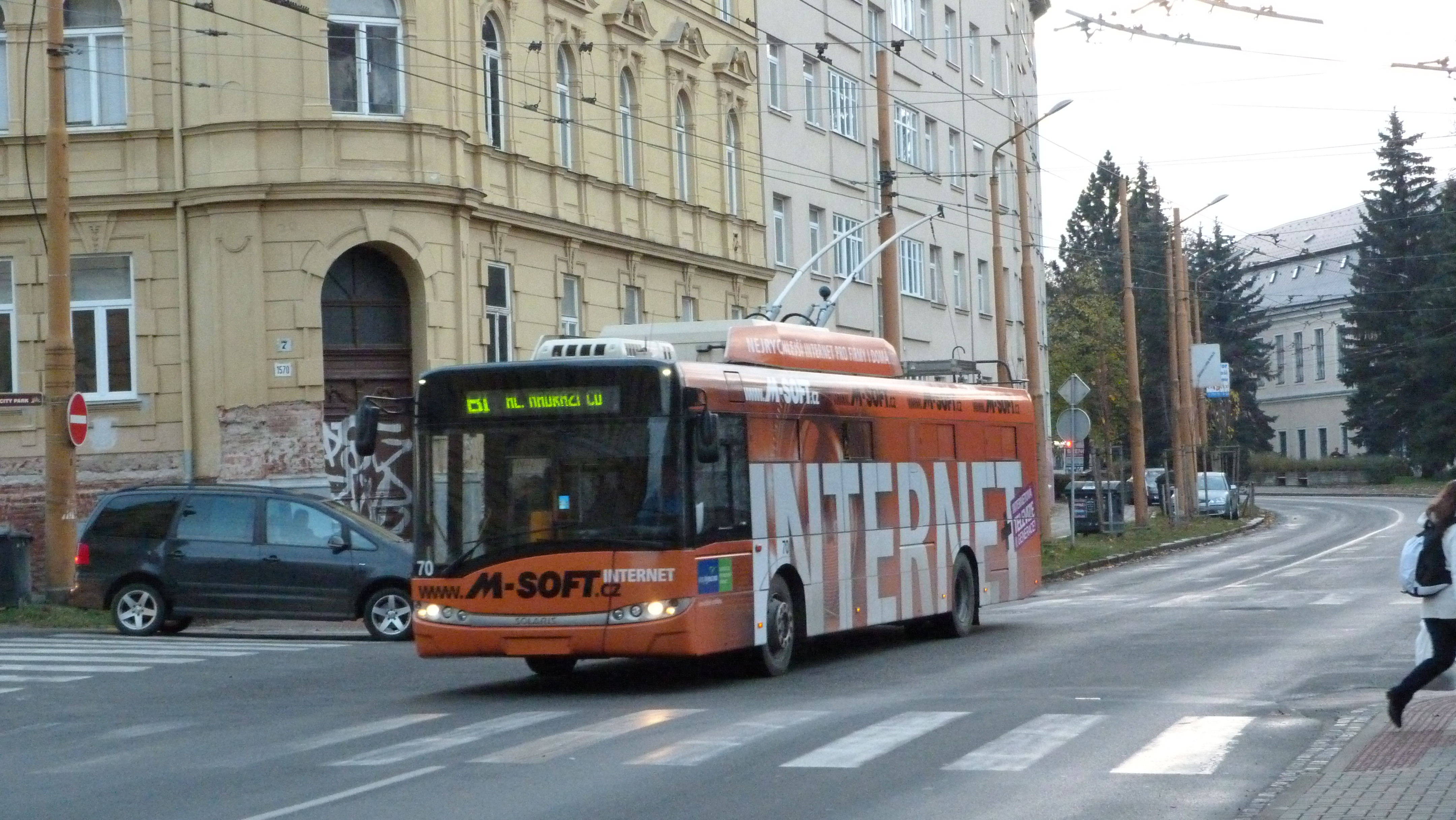 Škoda 26Tr Solaris (cn. 70), Jihlava, Czech Republic